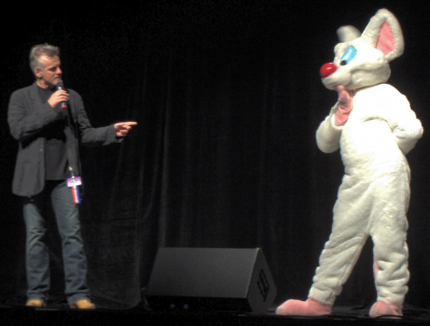 Voice actor Rob Paulsen tries to find the right voice for Pinky at the Anthrocon 2007 Masquerade.